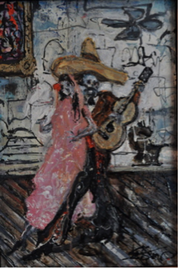 Ealy Mays's tribute to the Mexican culture's respects for afterlife